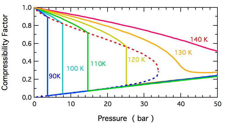 The pressure dependence of the compressibility factor for N2 at low temperature. The dashed line shows the gas-liquid coexistence curve. Created using data from the NIST Chemistry WebBook.